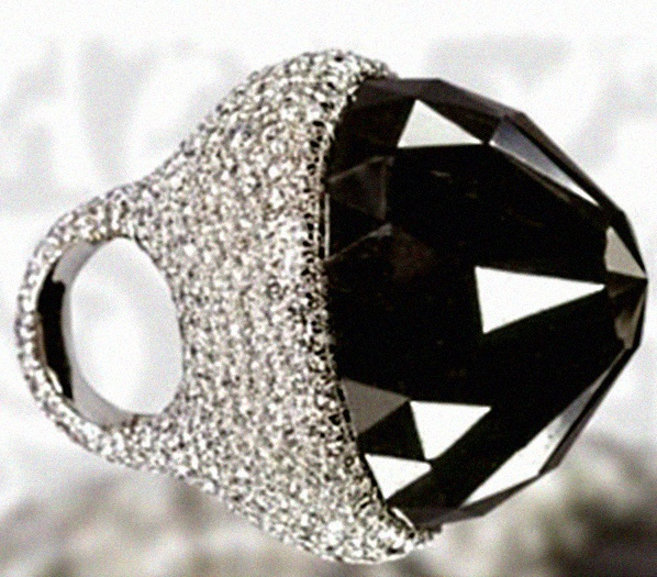 photo of the diamond set in a ring of white diamonds.